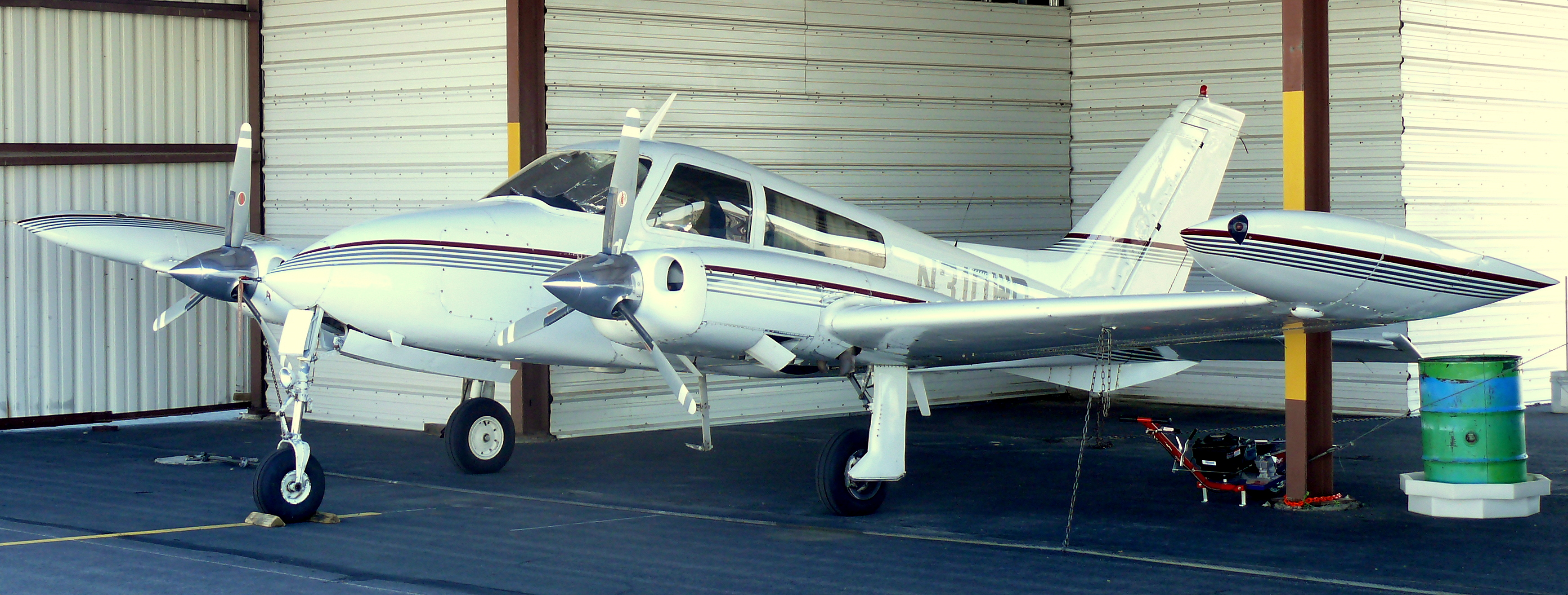 1969 Cessna 310Q at Centennial Airport